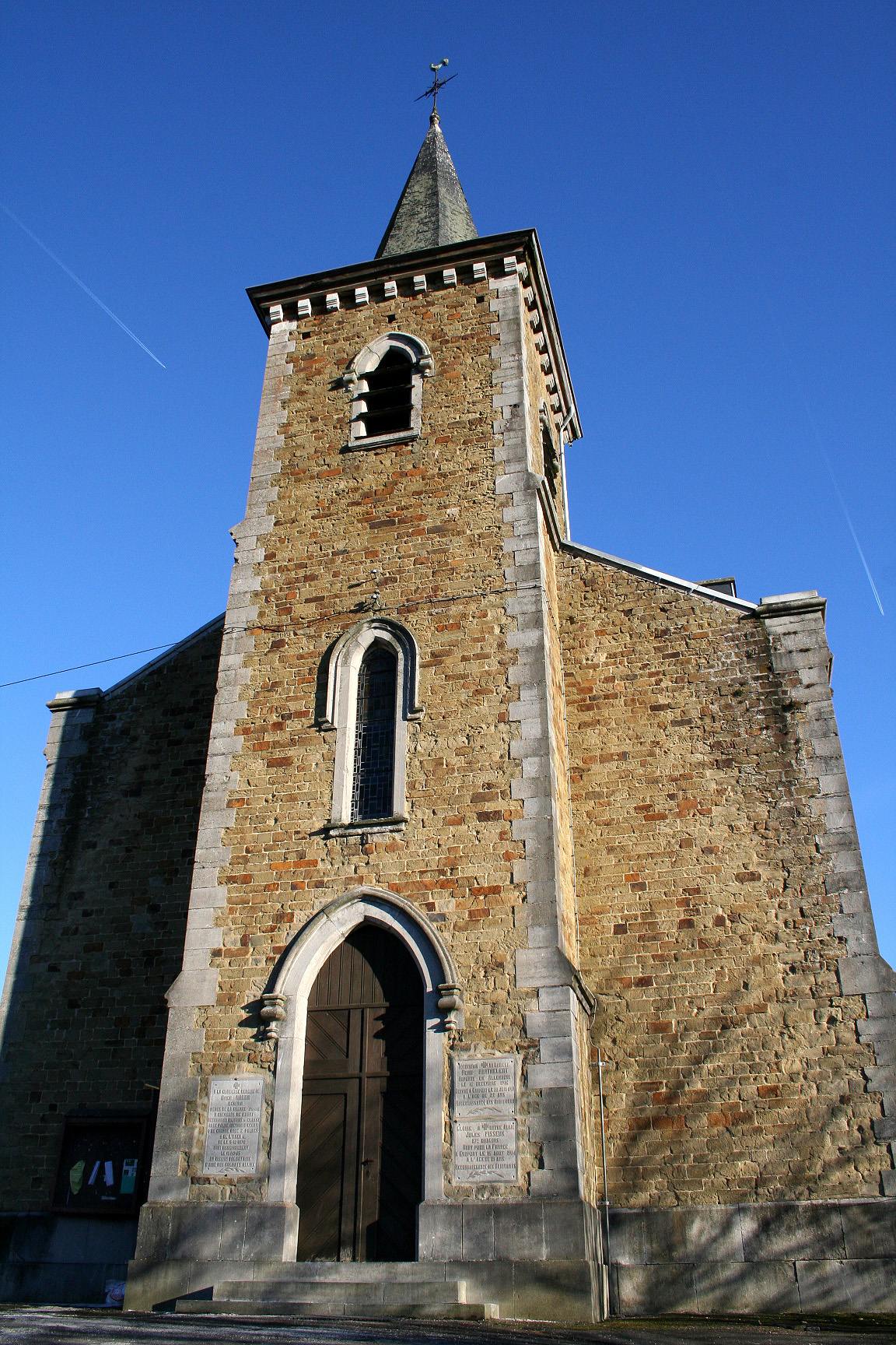 Grupont (Belgium): St. Denis' church (1860–1861).